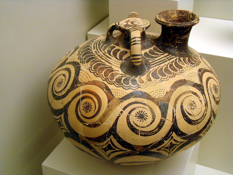 Minoan Vessel. Herakleion Archeological Museum